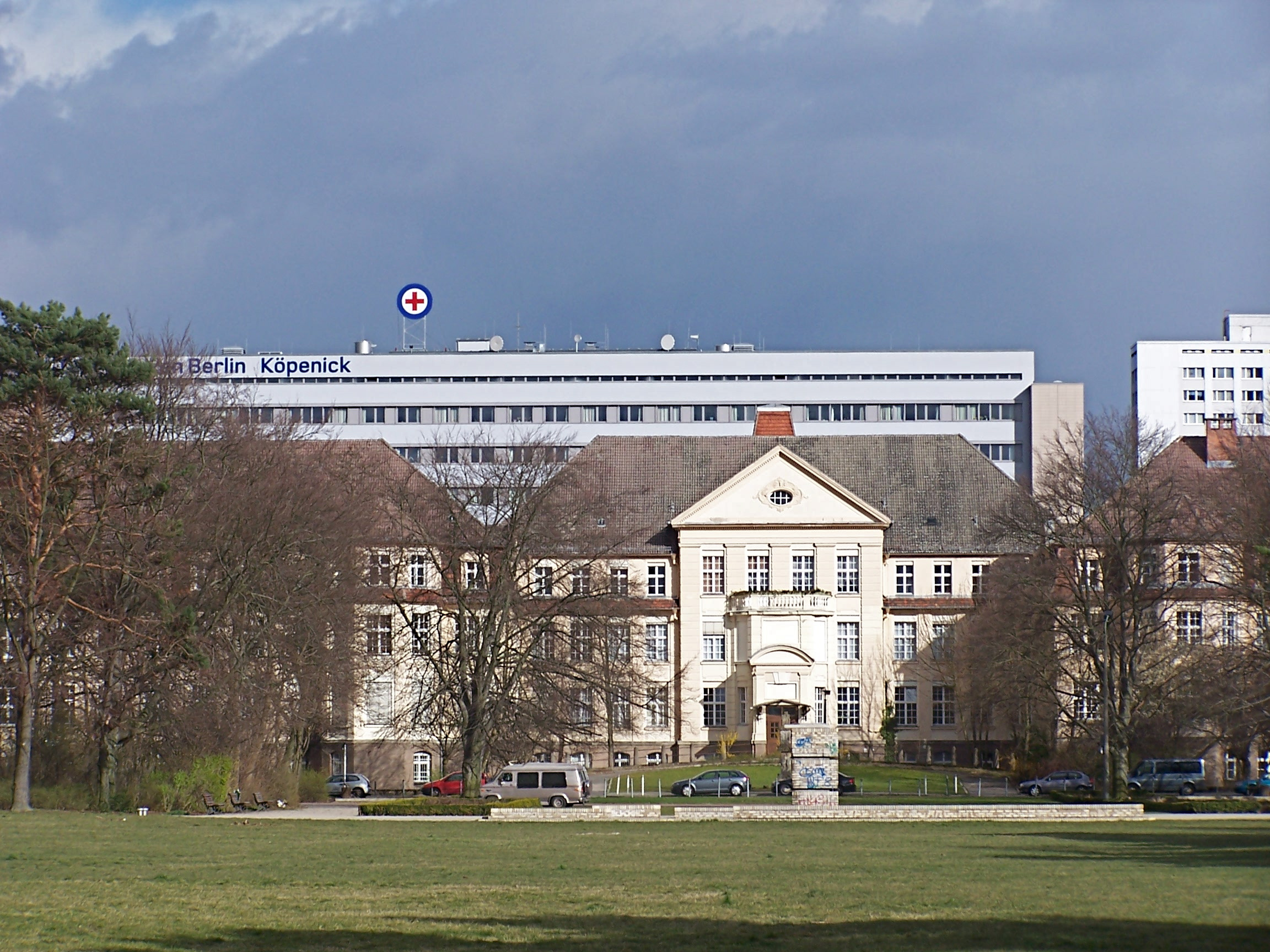 Hospital in Berlin-Köpenick with the old building in of the newer wing.